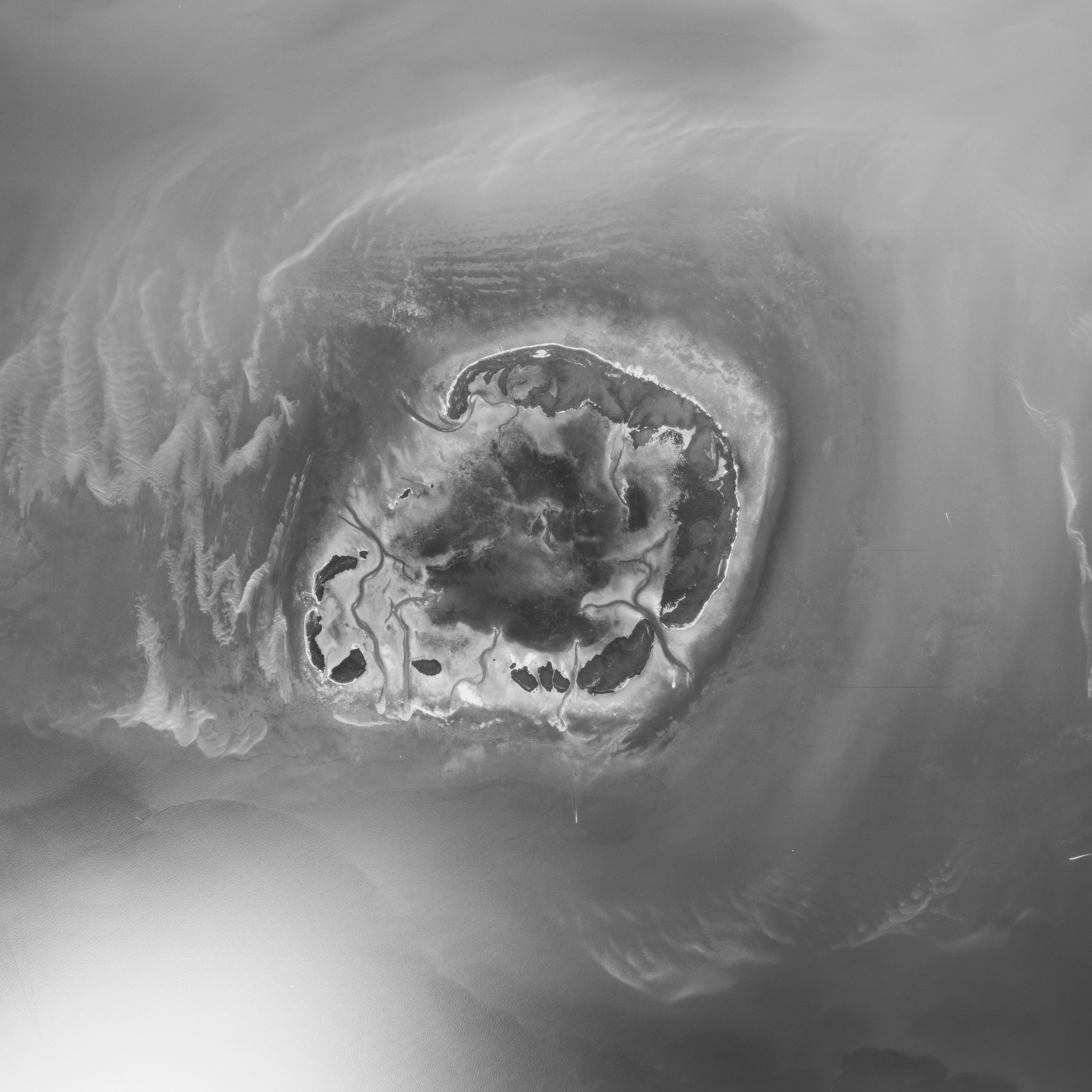 Air photo of the Marquesas Keys, Florida, in 1979. This is cropped from the original photo. The white zone in the lower left is a glare from the sun off the ocean.